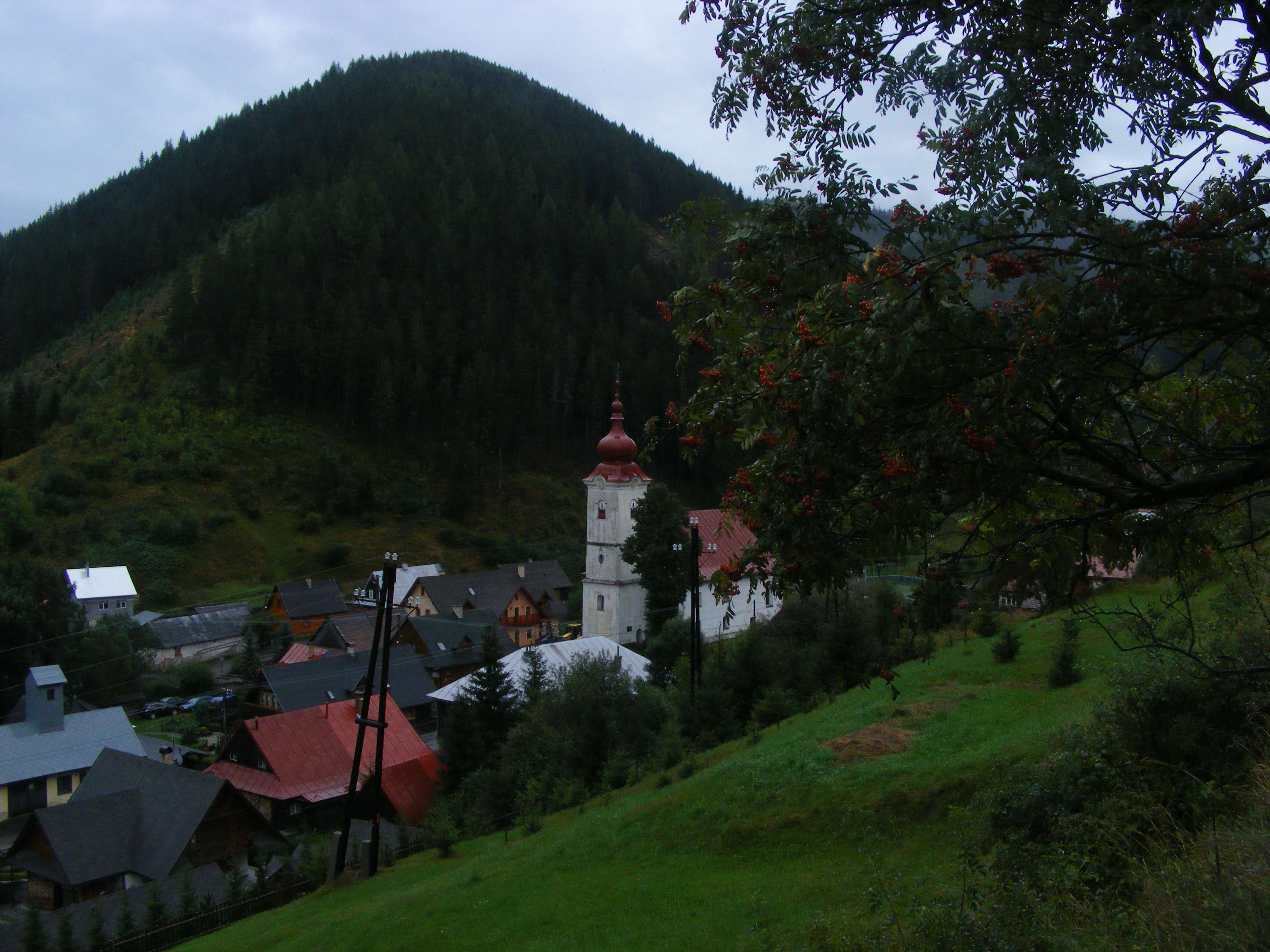 Nizke Tatry: hiking the main ridge - rainy Vyšná Boca